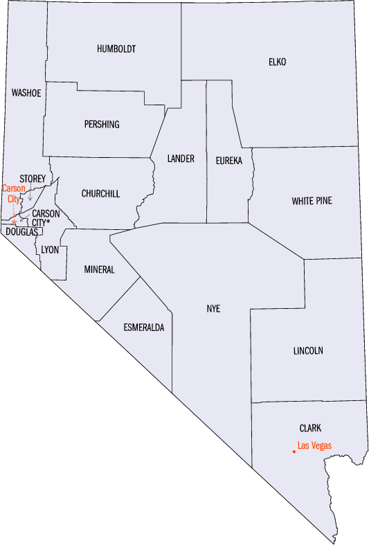 Annotated map of Nevada counties